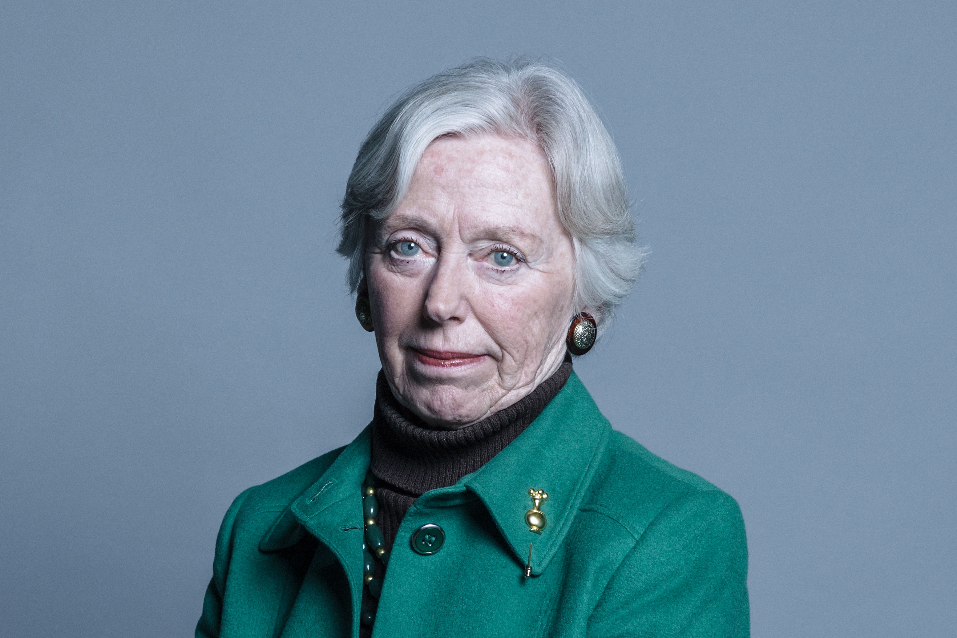 Official portrait of Baroness Hooper